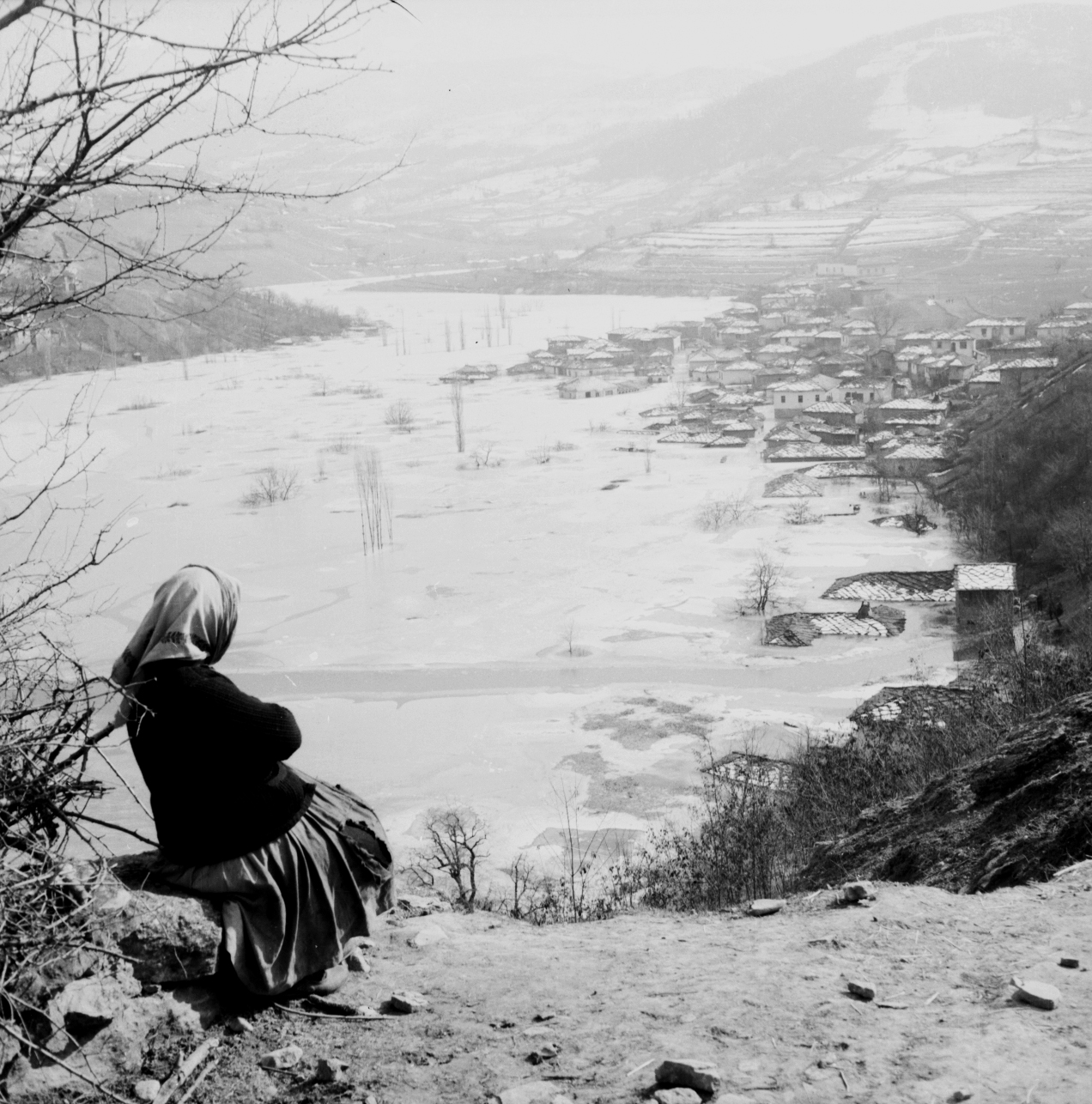 View of the sunken village Zavoj in 1964 after the discharge of water from the Zavoj lake. After a year, the village again saw the light of the day.